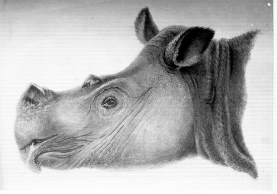 Head of Sumatran rhinoceros. In the contribution by S. Muller and H. Schlegel in C.J. Temminck, Verhandelingen over de natuurlijke geschiedenis der Nederlandsche overzeesche bezittingen.